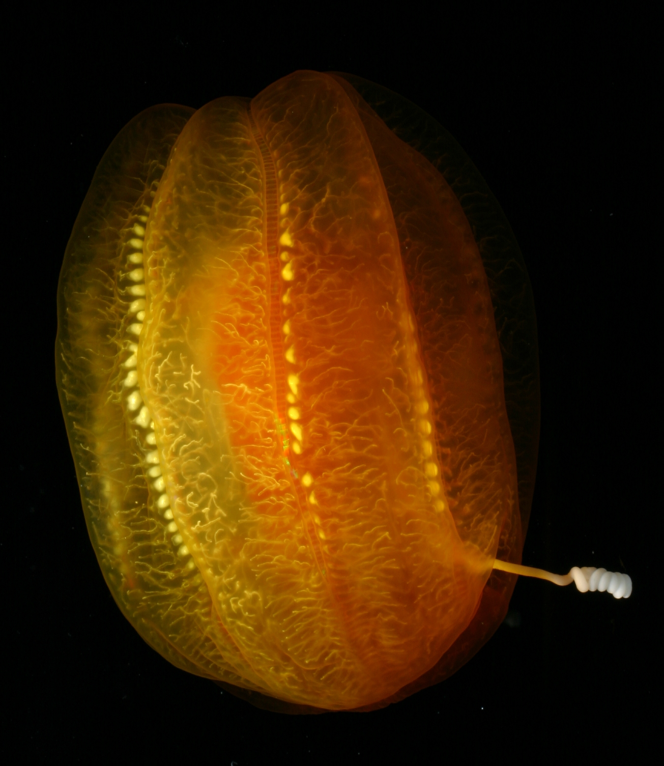 Aulacoctena sp., a large softball-sized cydippid ctenophore from the deep waters of the Arctic Ocean. Alaska, Beaufort Sea, North of Point Barrow.